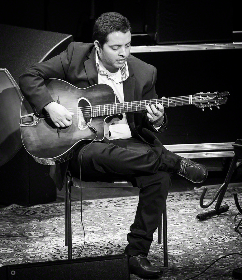 Nitcho Reinhardt performs at Cosmopolite during the Django festival 2016.